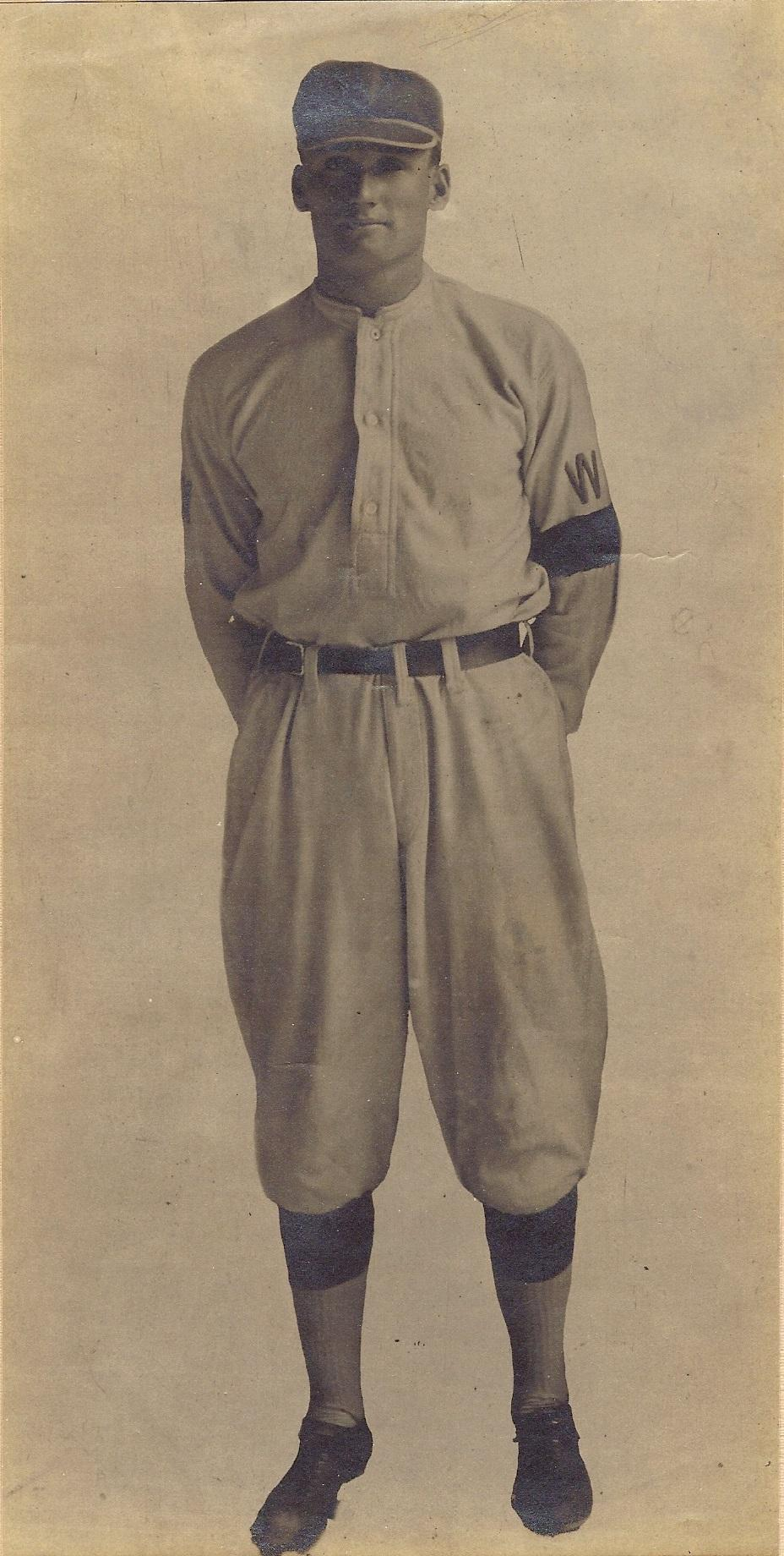 This full-length photo of Tom Phillips was probably taken when he first joined the Washington Americans (Senators).